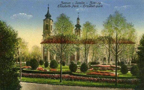 Churches in Zemun's Gradski Park as seen in an old postcard.